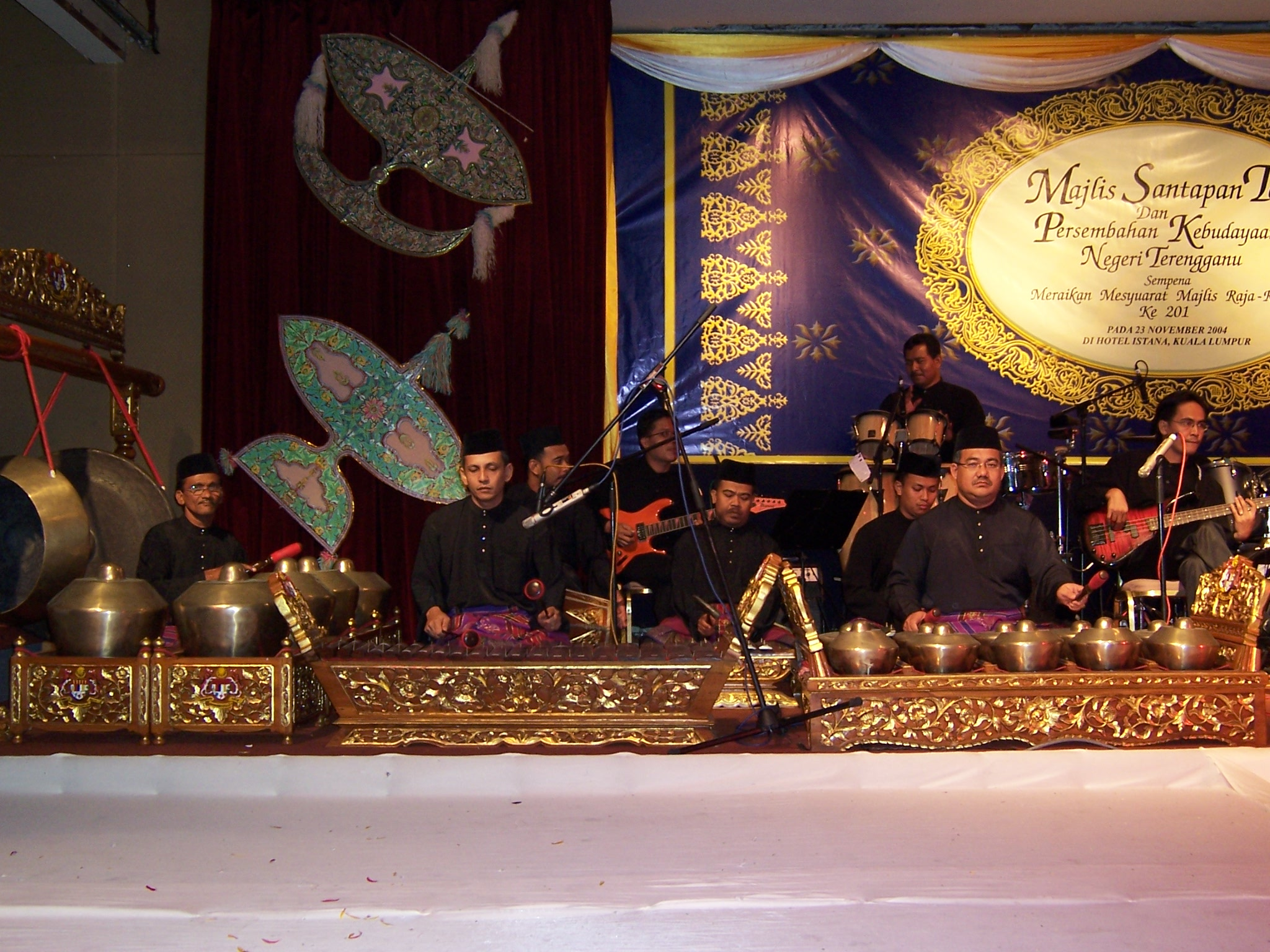 “The Malay gamelan musicians with their instruments” —English Wikipedia "Malay Gamelan"